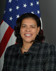 Wanda L. Nesbitt, U.S. diplomat. As of 2010, U.S. ambassador to Namibia.